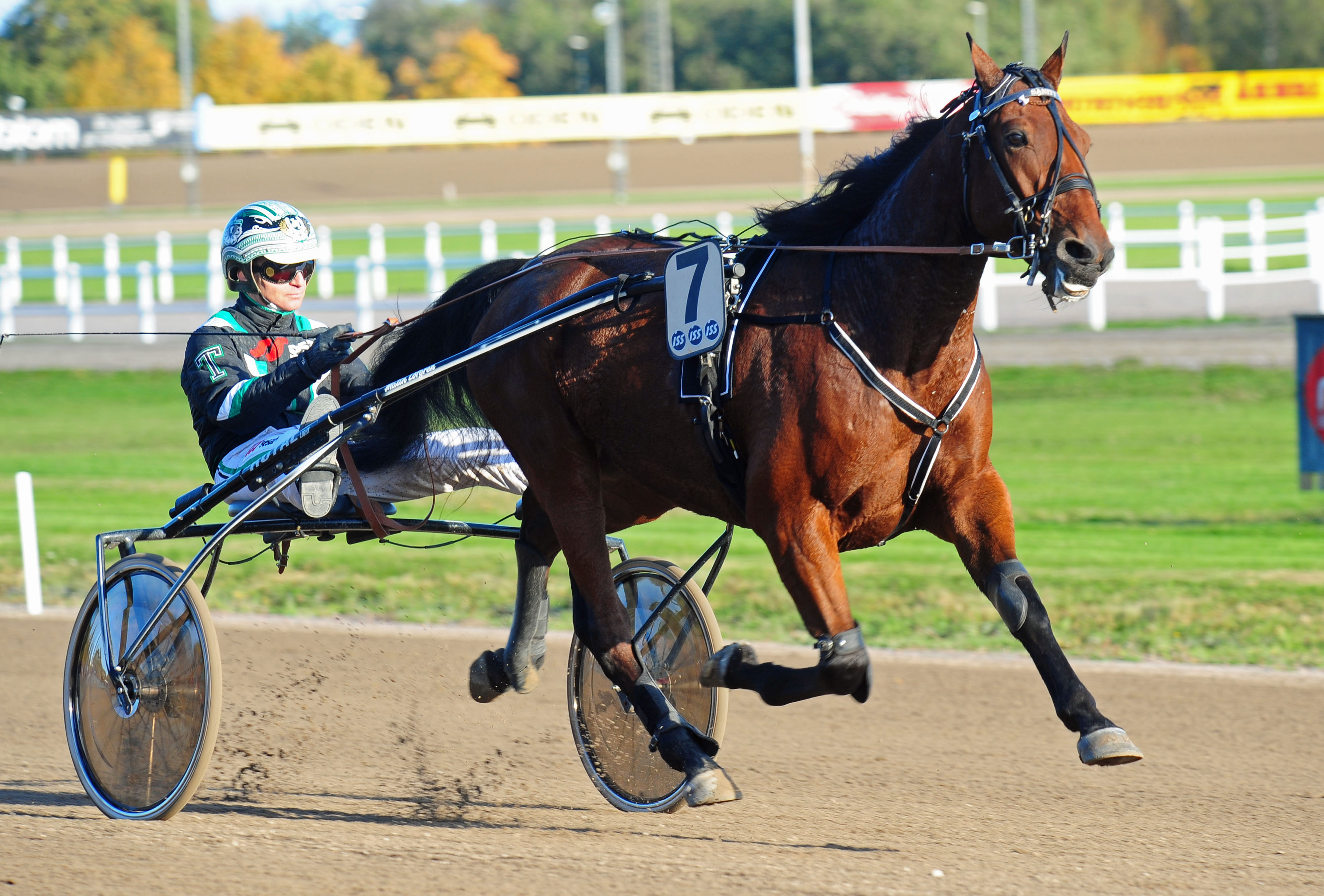 Trotting horse Sanity and driver Johnny Takter at Gävletravet, Sweden. 2011-10-08.